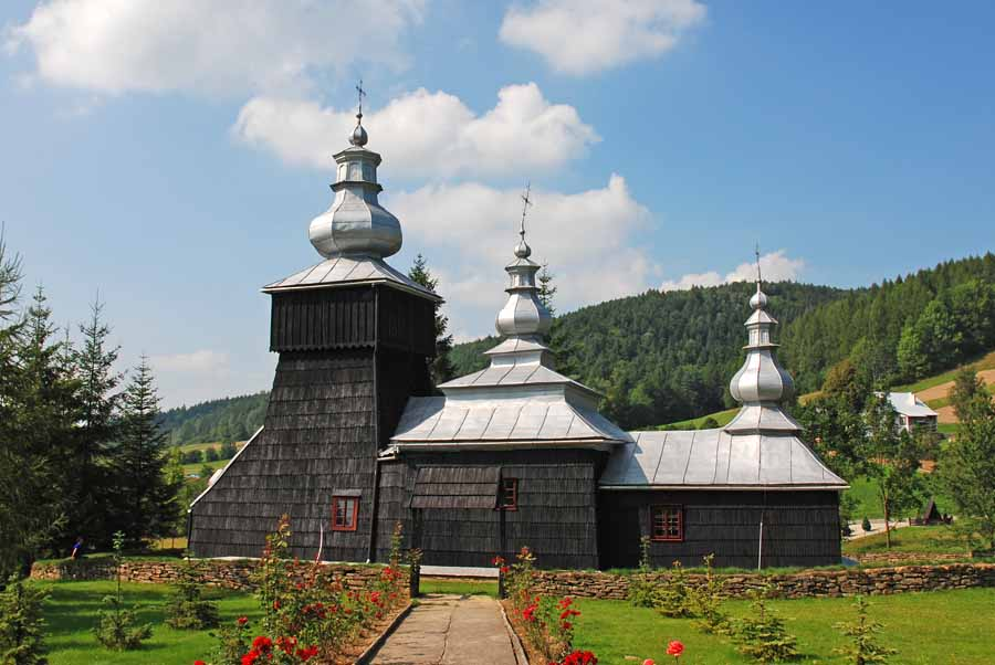 North-west Lemko, Greek Catholic church in Czarna, Lesser Poland Voivodeship, Poland.